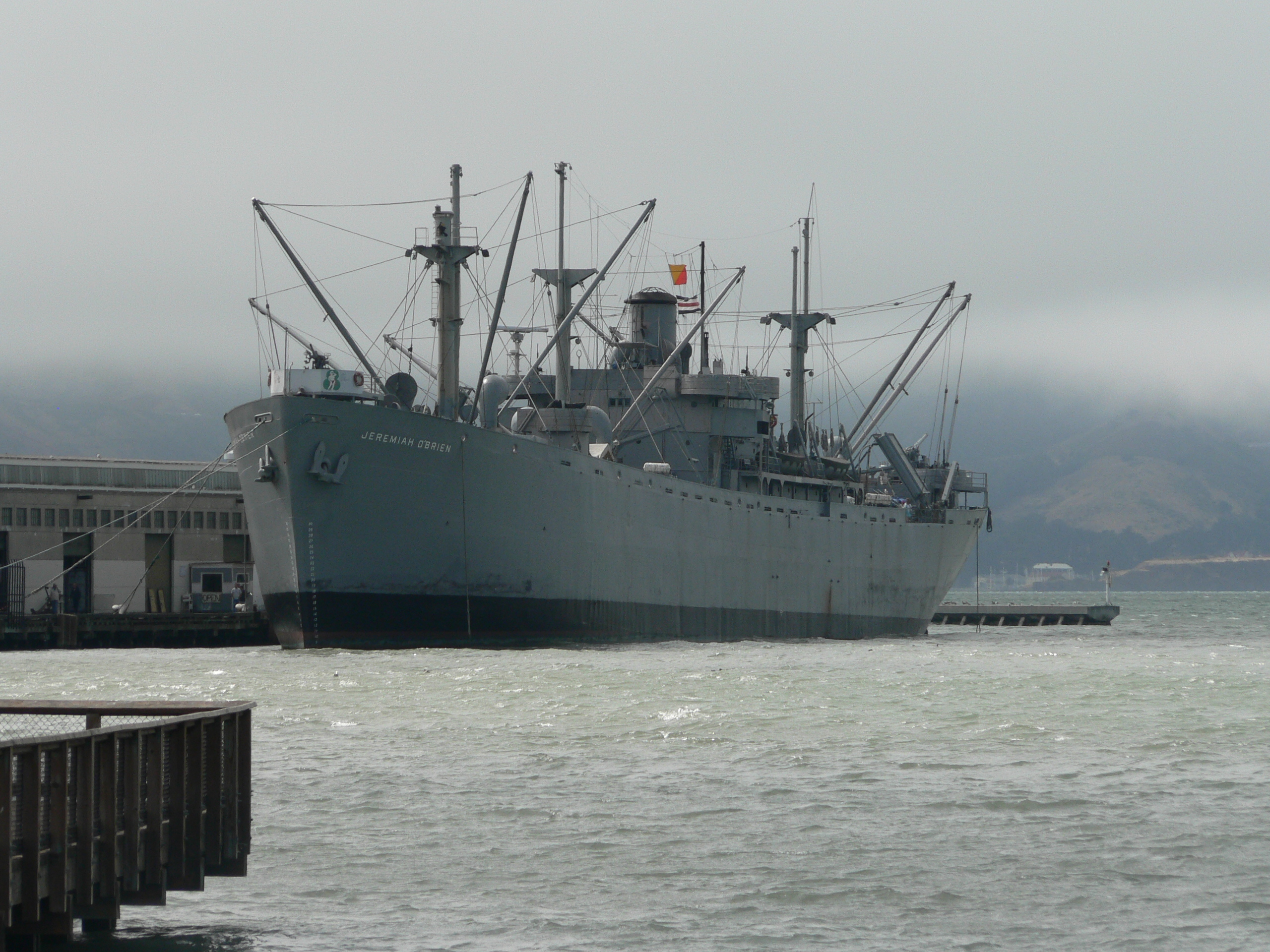 The SS Jeremiah O'Brien, from the side.